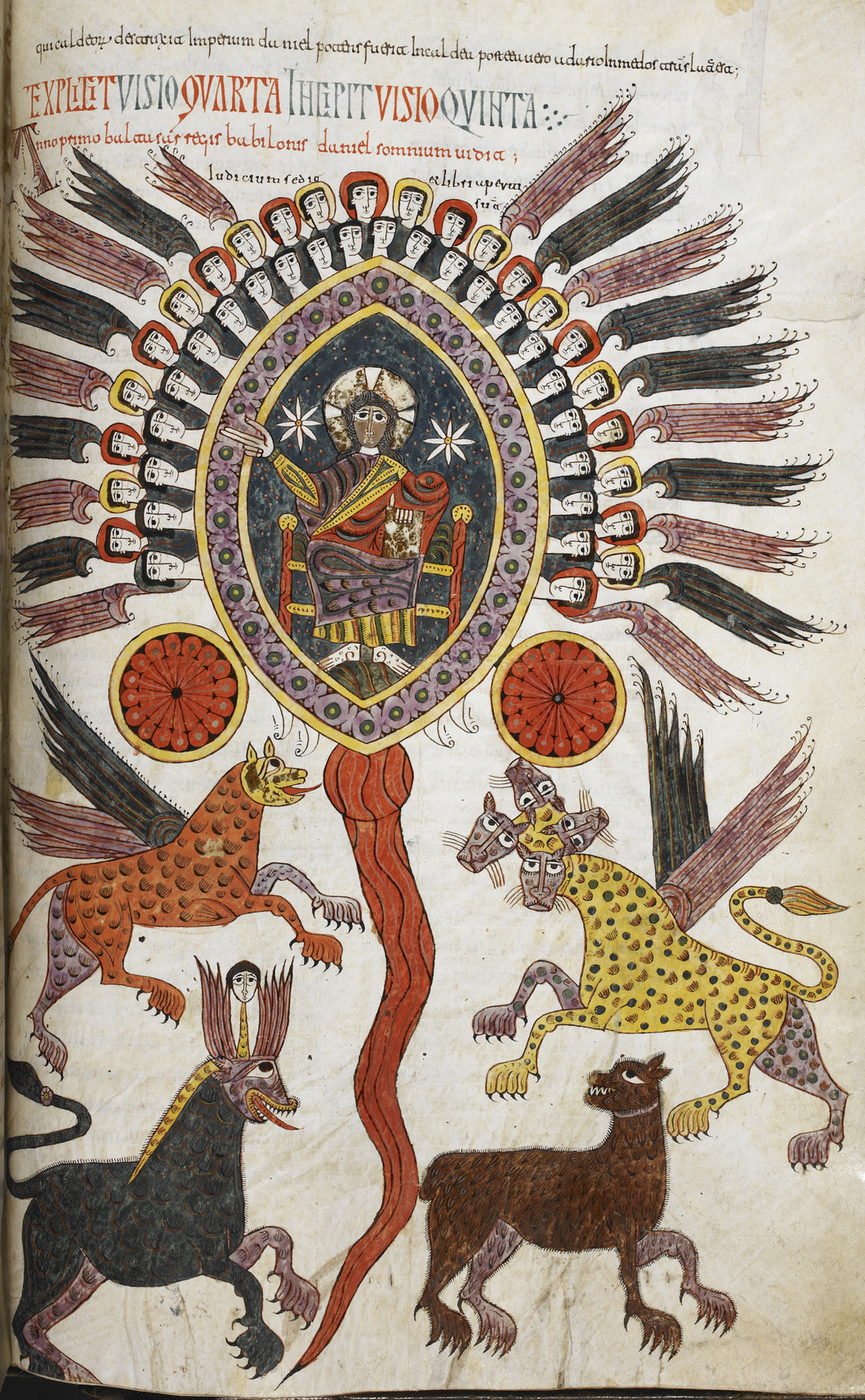 Daniel chapter 7, verses 2-10. Daniel's vision of the four beasts from the sea and the Ancient of Days